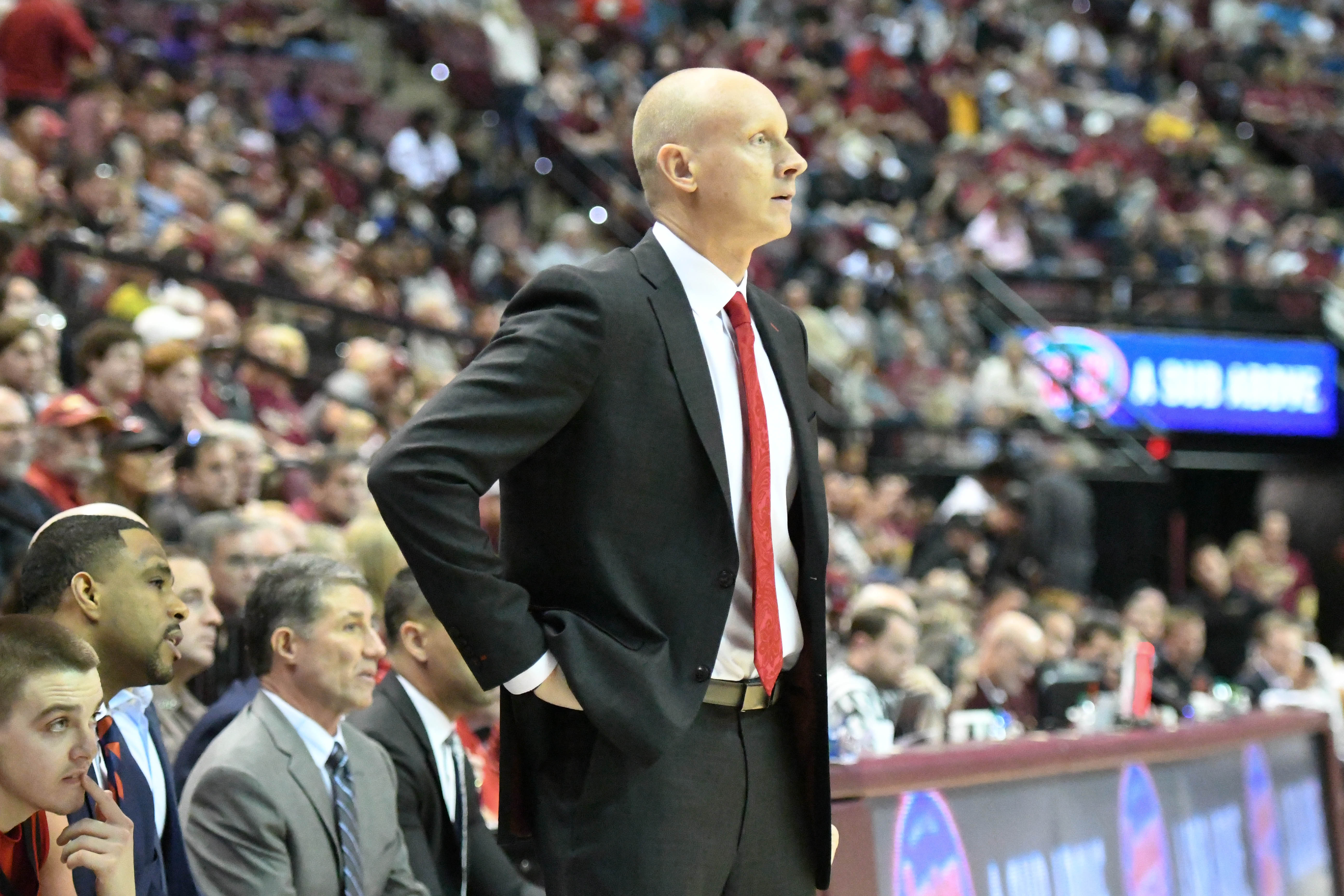 Louisville head coach Chris Mack in the first half of FSU's game against Louisville at the Tucker Center on February 9, 2019.